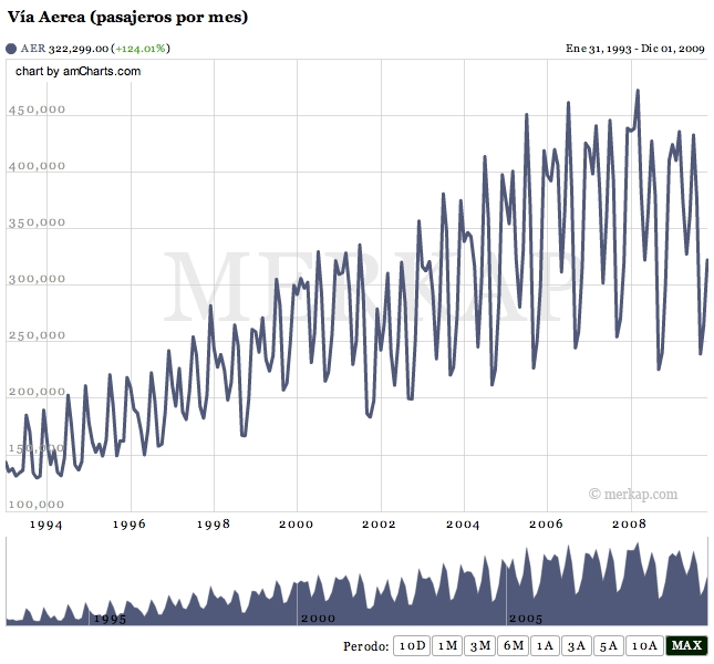 Total arrivals (by air) - Dominican Republic